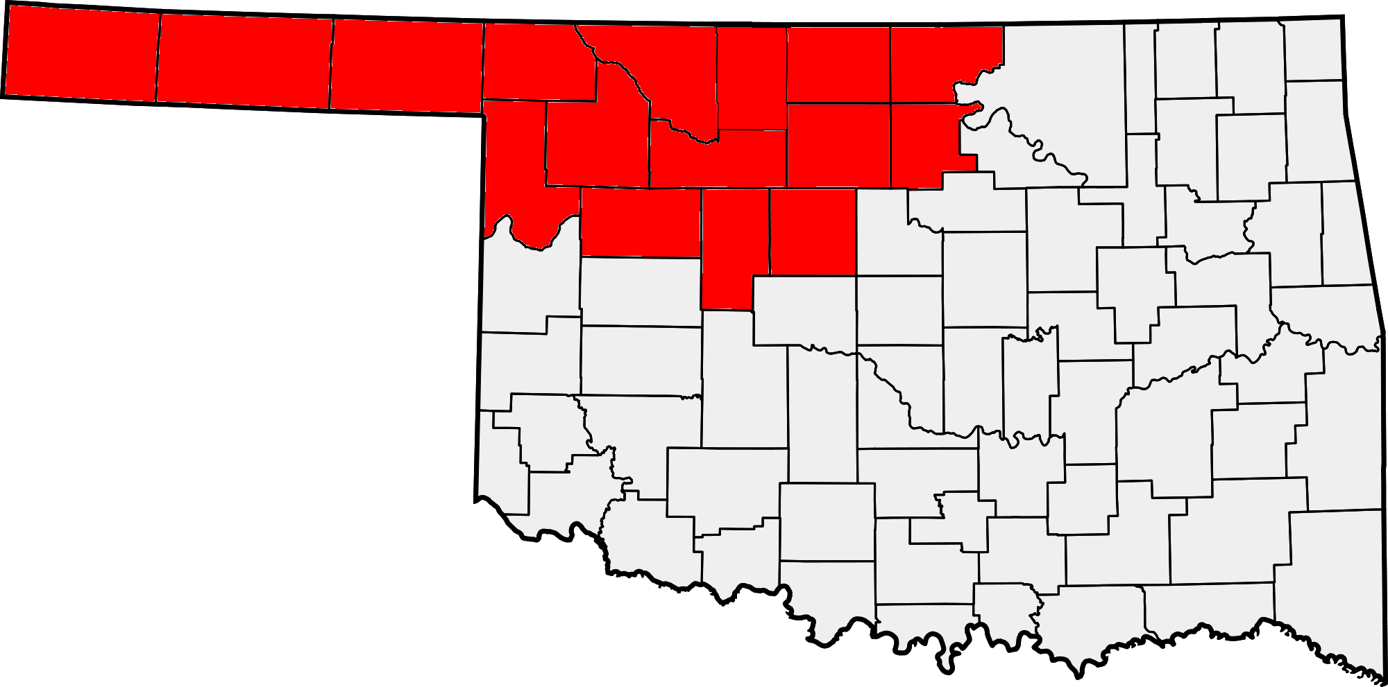 A map highlighting counties included in Northwestern Oklahoma, also known as "Red Carpet Country".